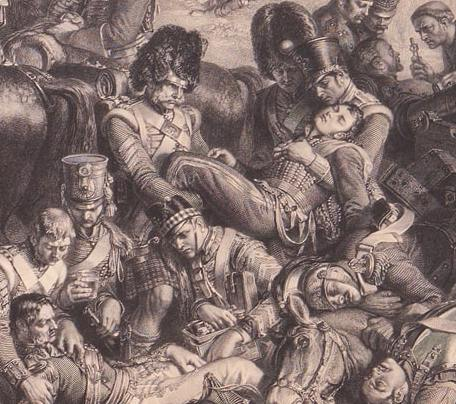 Wellington and Blucher Meeting After the Battle of Waterloo, Army & Navy Club, Accession number: 1980.02